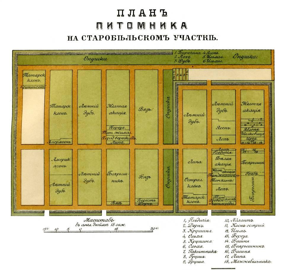 Plan of Starobelsk site (Yunitsky zakaznik) 1893. Lithography Arngolda, 1894.